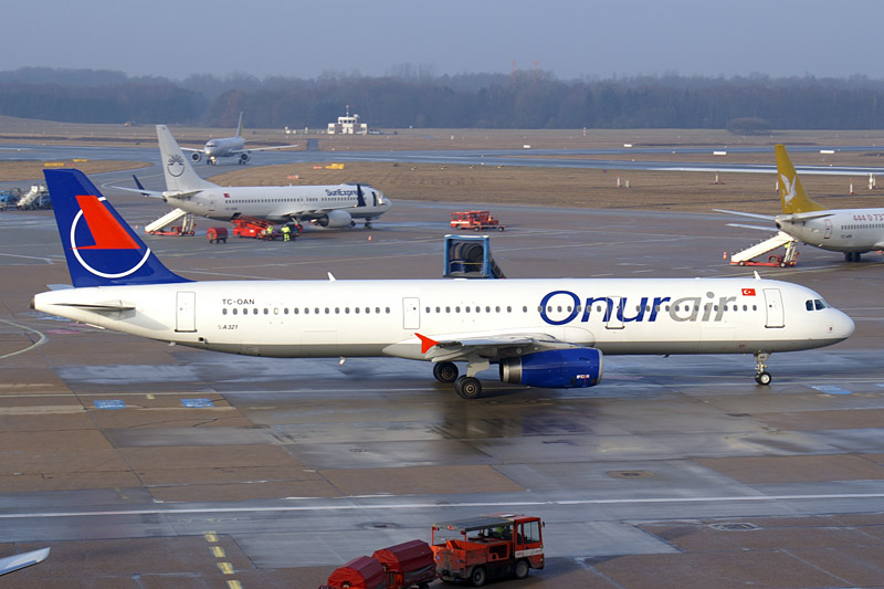 Onur Air Airbus A321 TC-OAN at Hamburg Airport